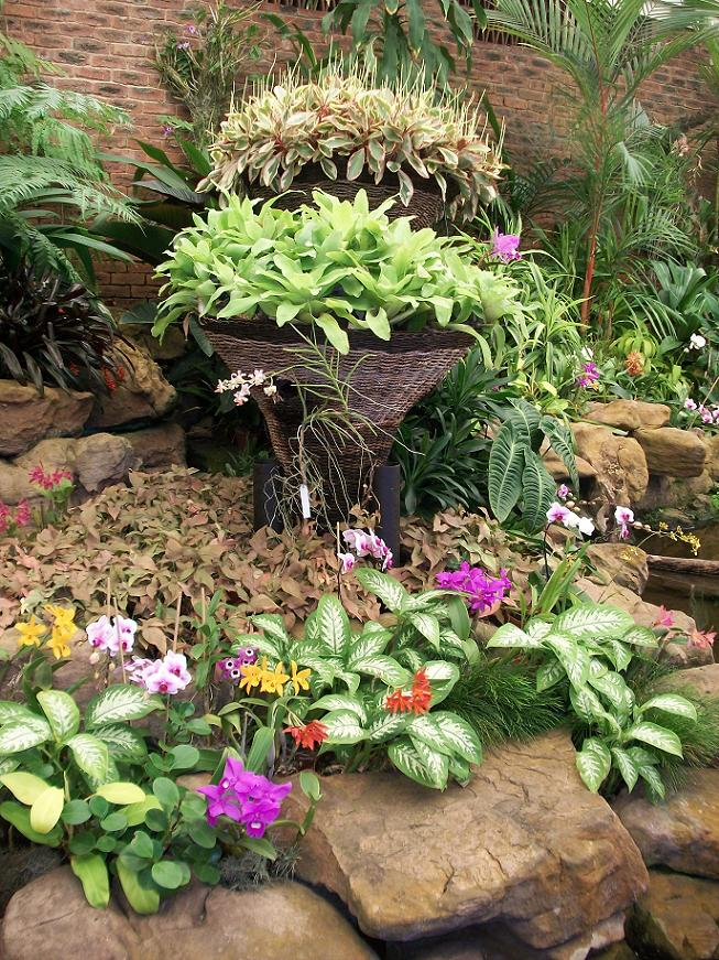 A view inside the Ernest Thorp Orchid House, Durban Botanic Gardens, South Africa